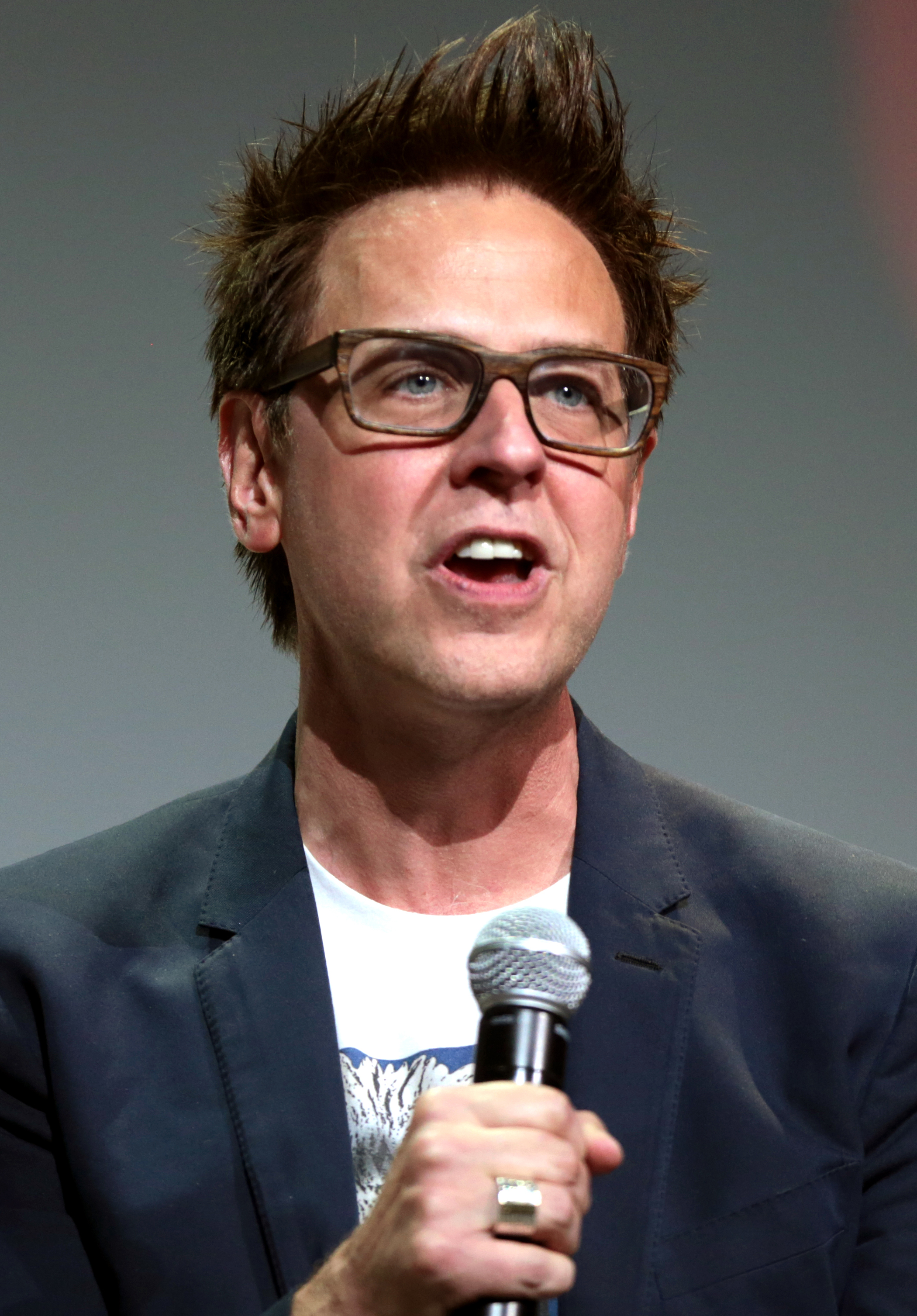 James Gunn speaking at the 2016 San Diego Comic-Con International in San Diego, California.